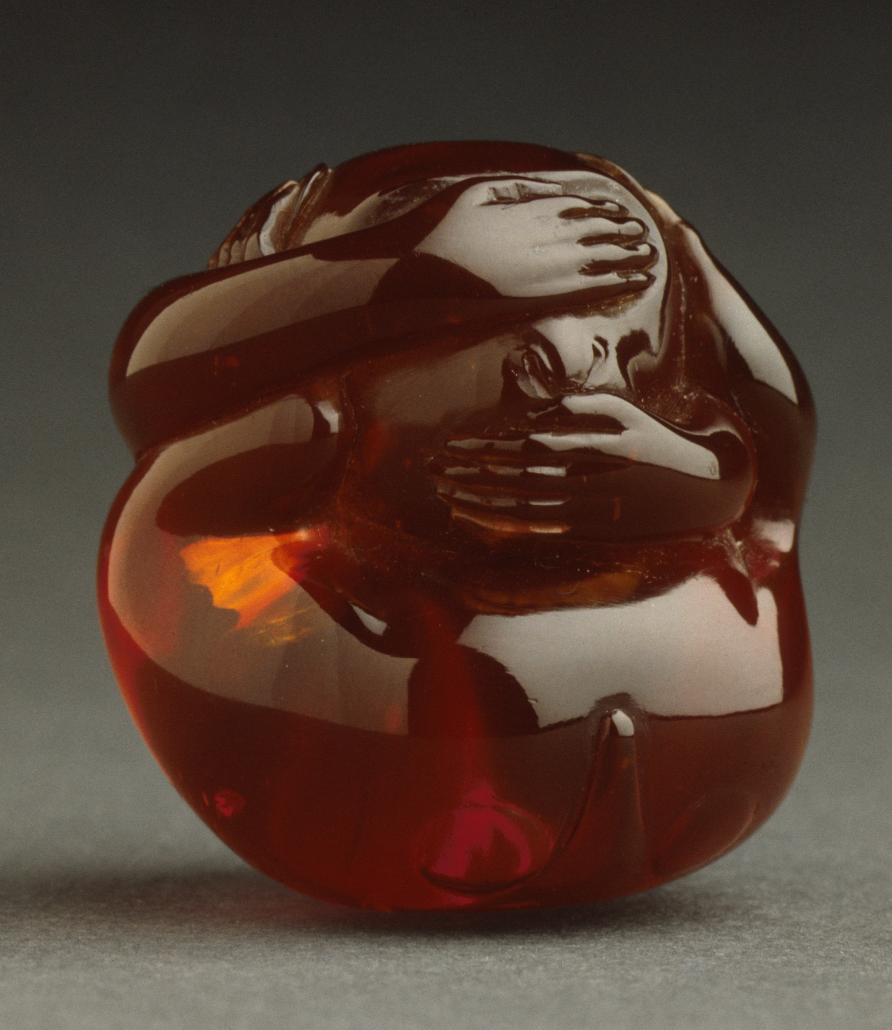 Japan, mid- to late 19th century Costumes; Accessories Wine-colored amber Raymond and Frances Bushell Collection (AC1998.249.87) Japanese Art